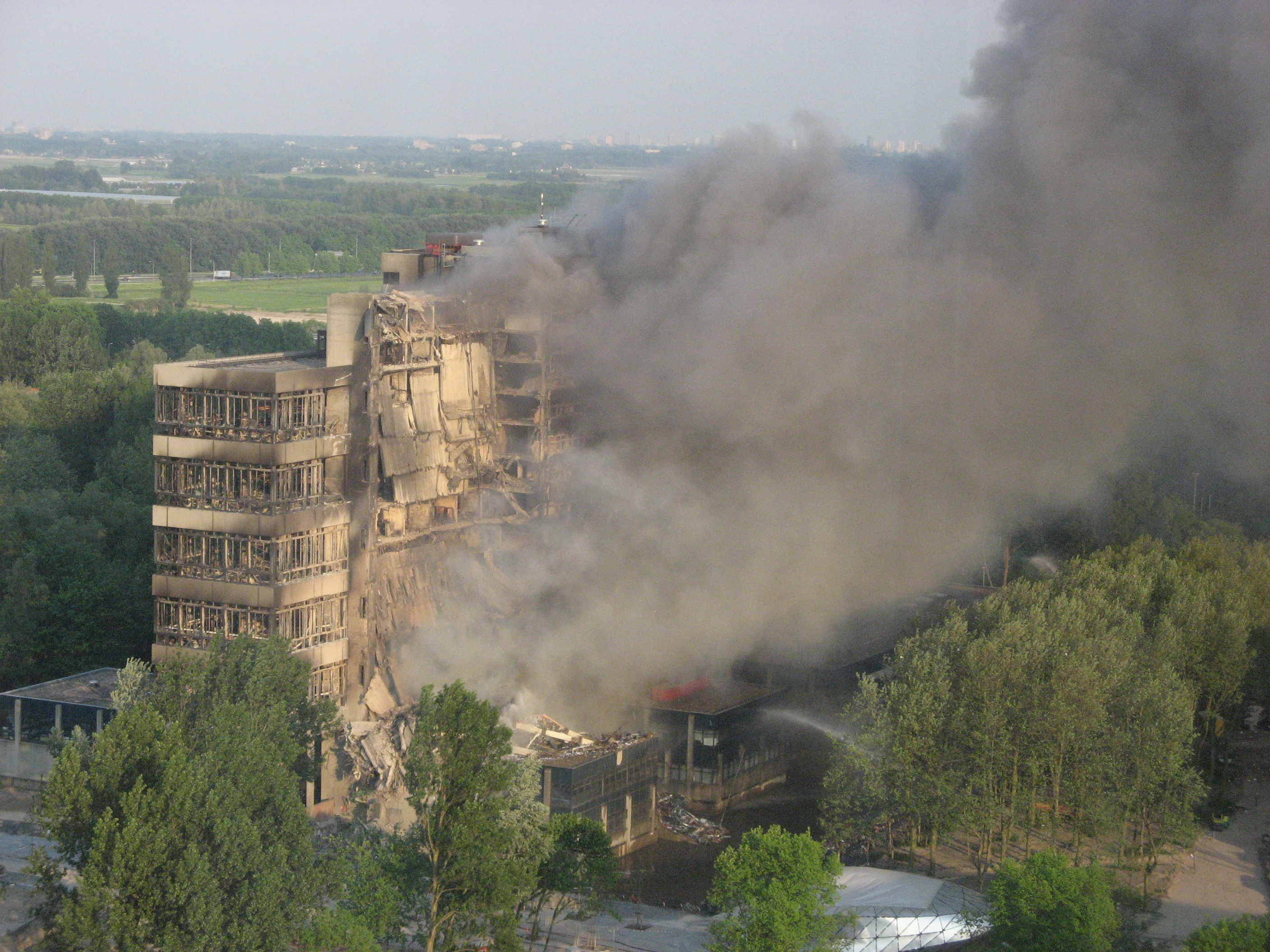 The fire at the faculty of Architecture of the TU Delft in the early evening.